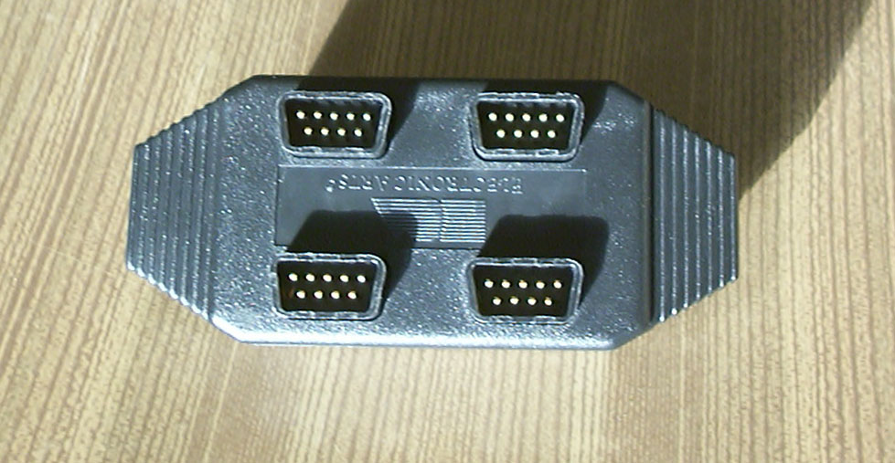 The image shows the 4 way play from EA, the first multitap for the Sega Mega Drive (Sega Genesis in North America). The logo is upside down due to a production failure.